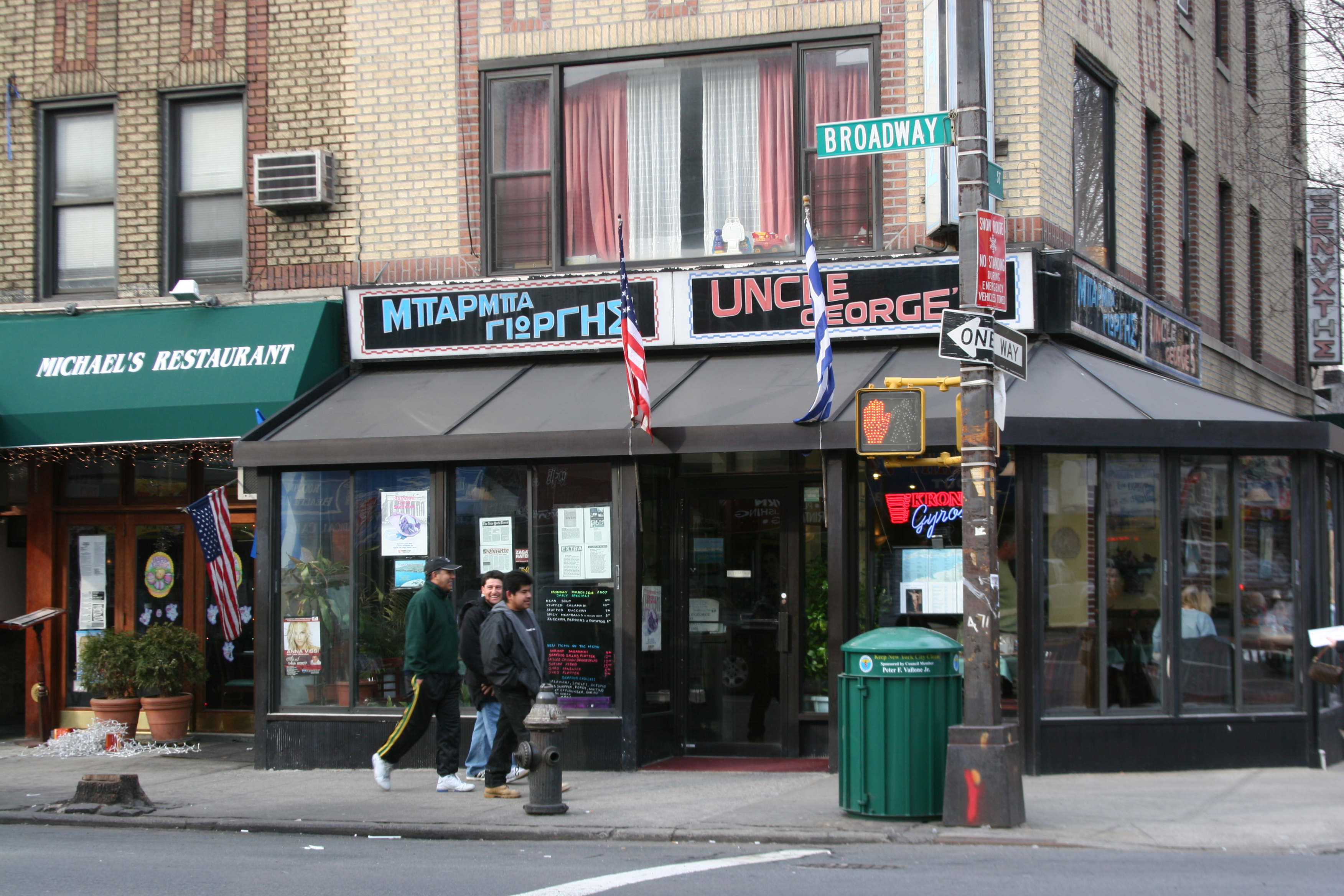 Uncle George's in Astoria, Queens, NYC. Photo by User:Aude, taken on March 26, 2007.